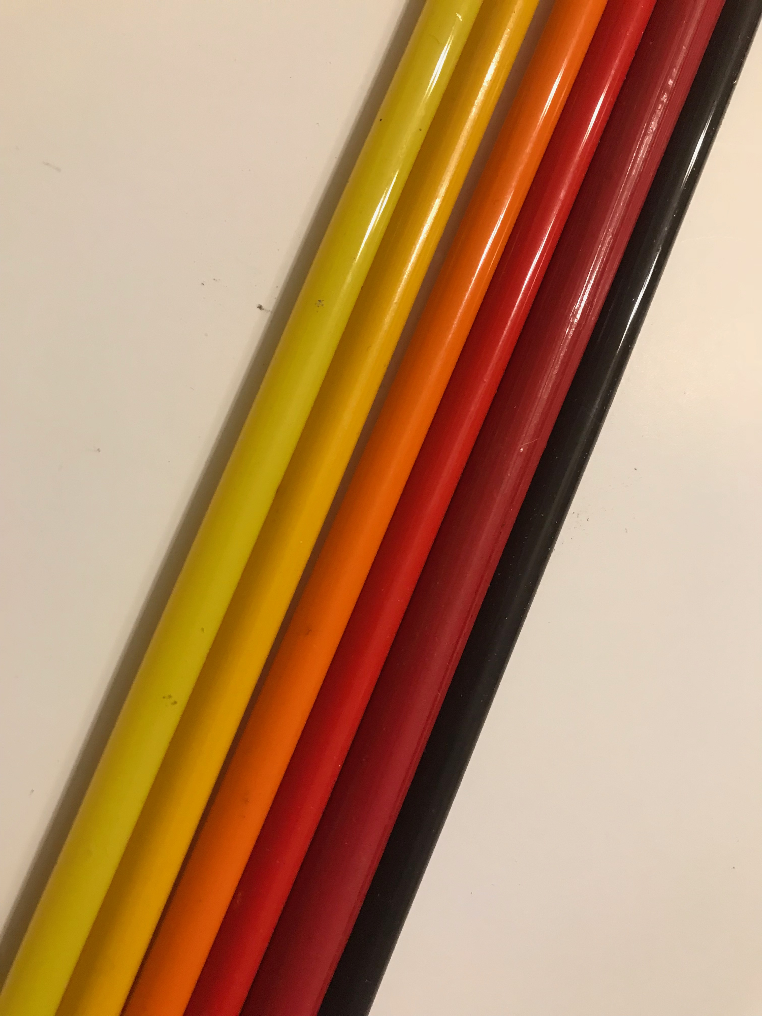 Cadmium borosilicate color rods used in art glass